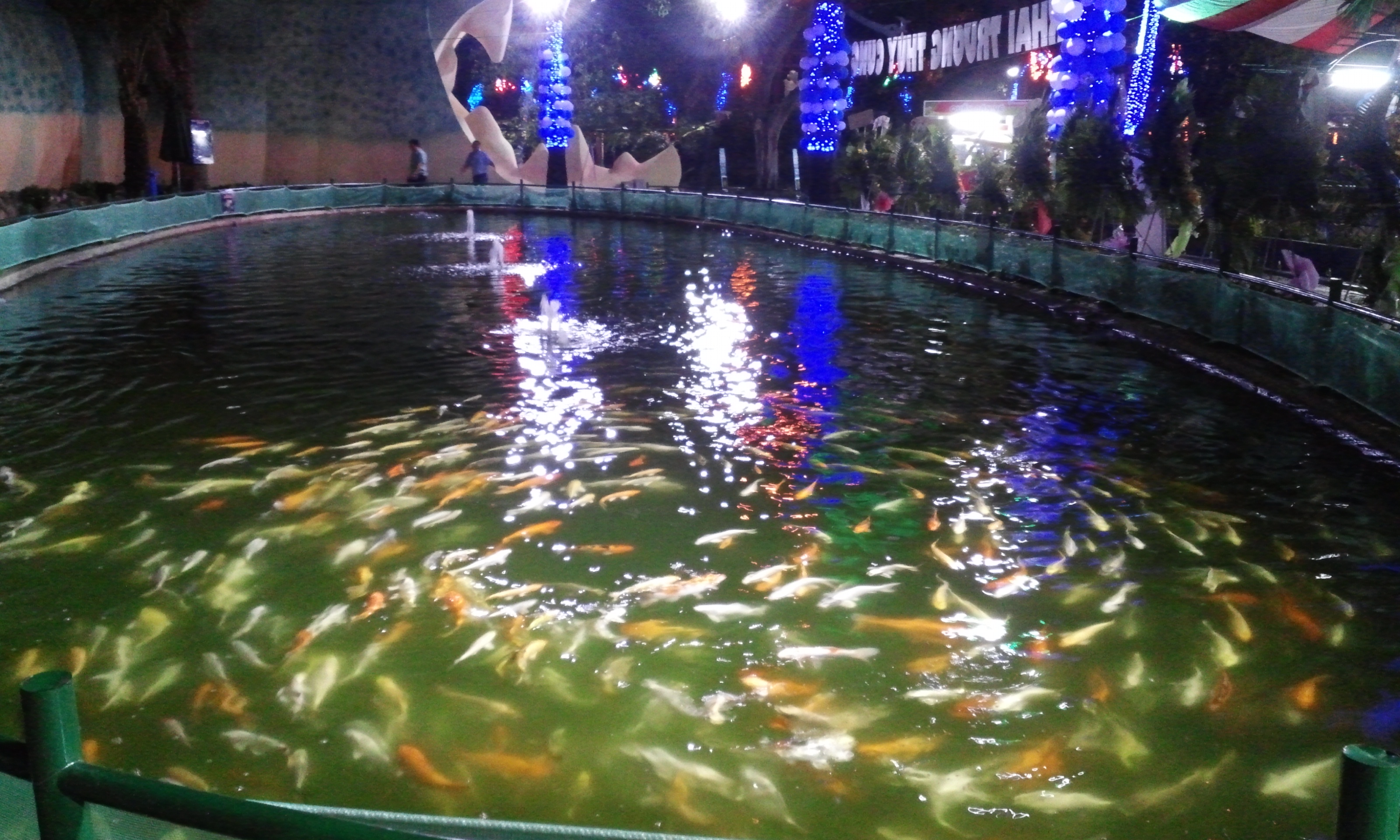 Thuỷ cung Đầm Sen 2013